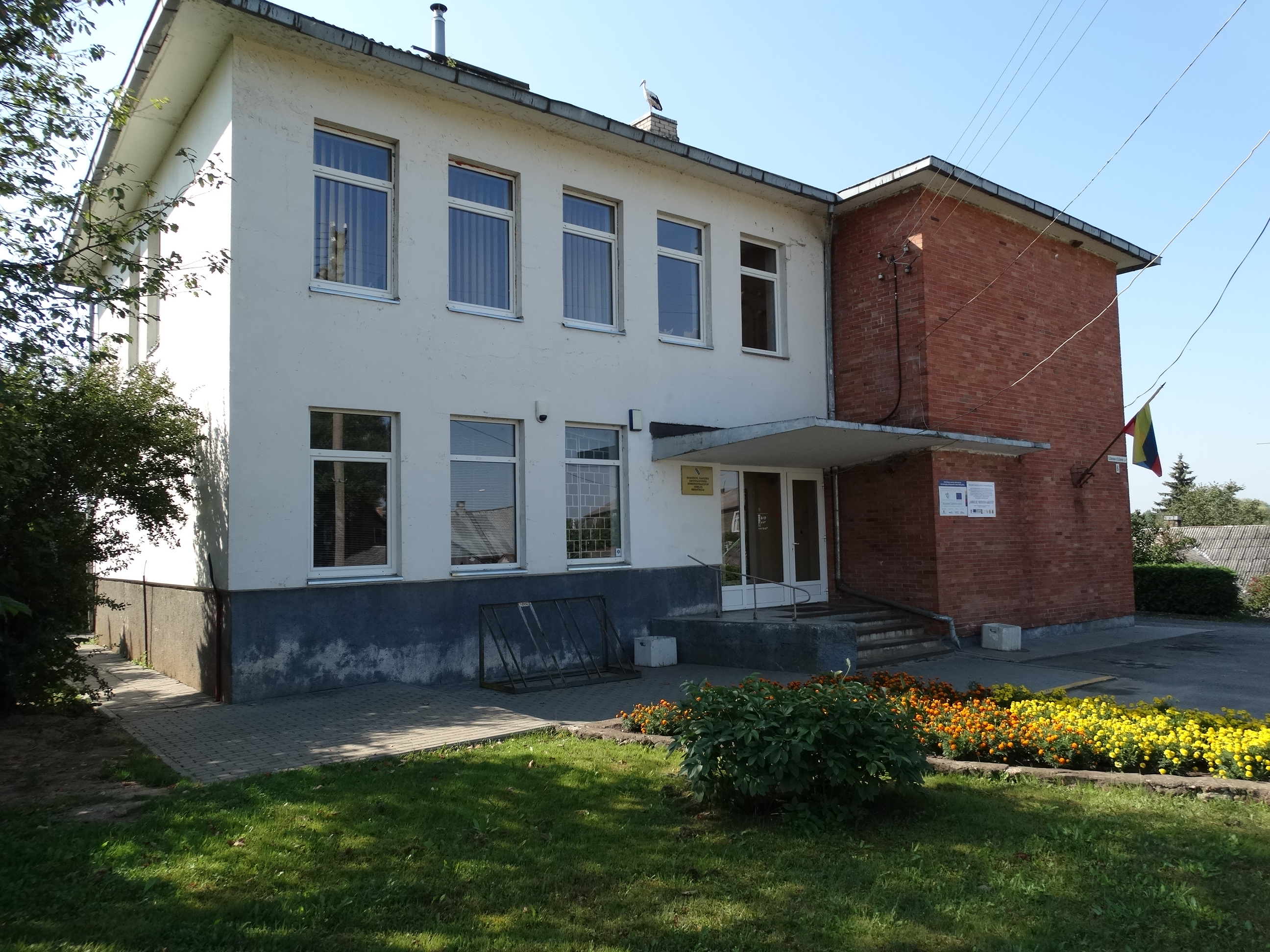 Eldership in Obeliai, Rokiškis district, Lithuania